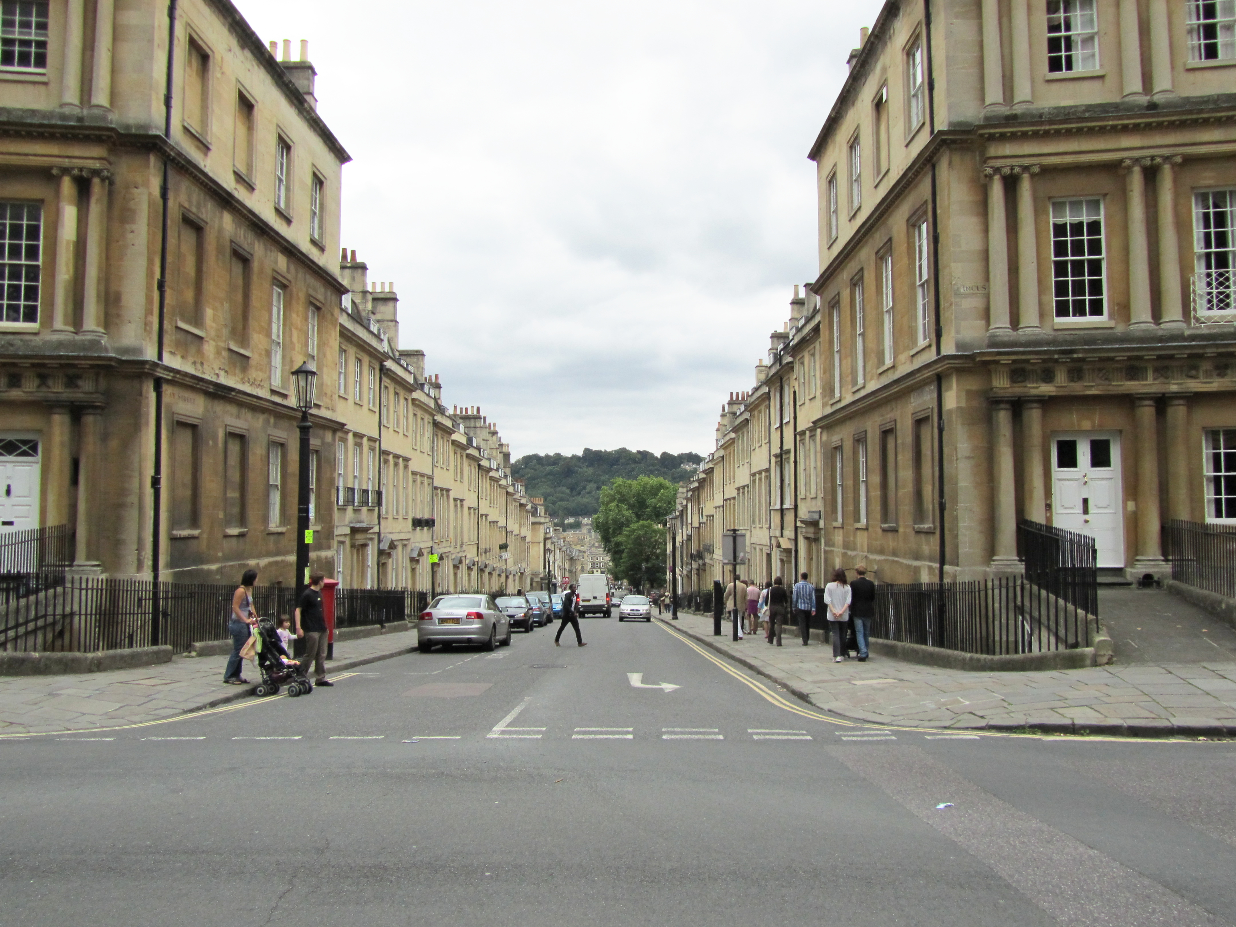 Gay Street from The Circus, Bath, Somerset